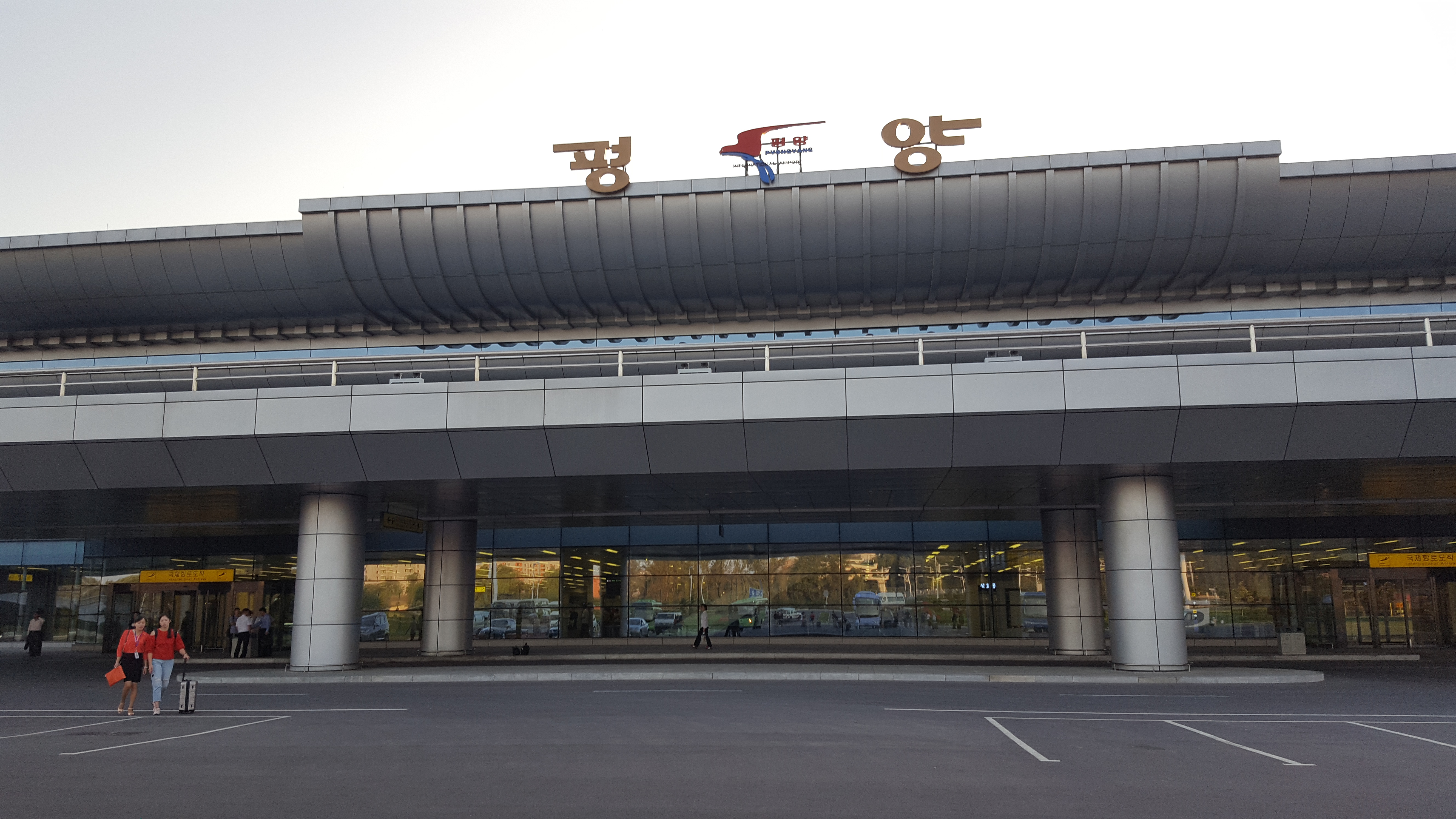 Appearance of Sunan International Airport Appearance in Pyongyang, North Korea